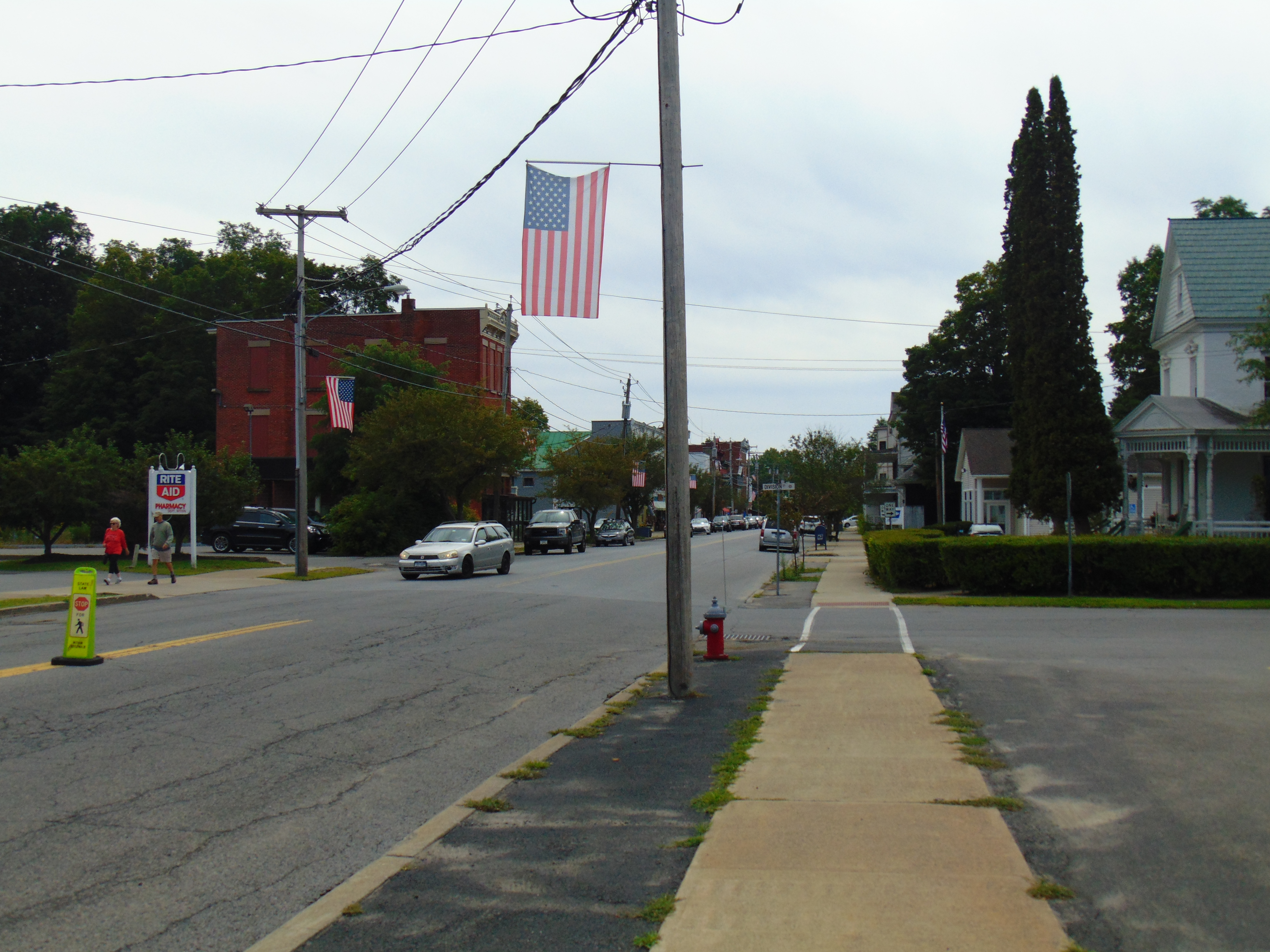 Looking down N. Main Street in Northville, NY (This is my photo from flickr)